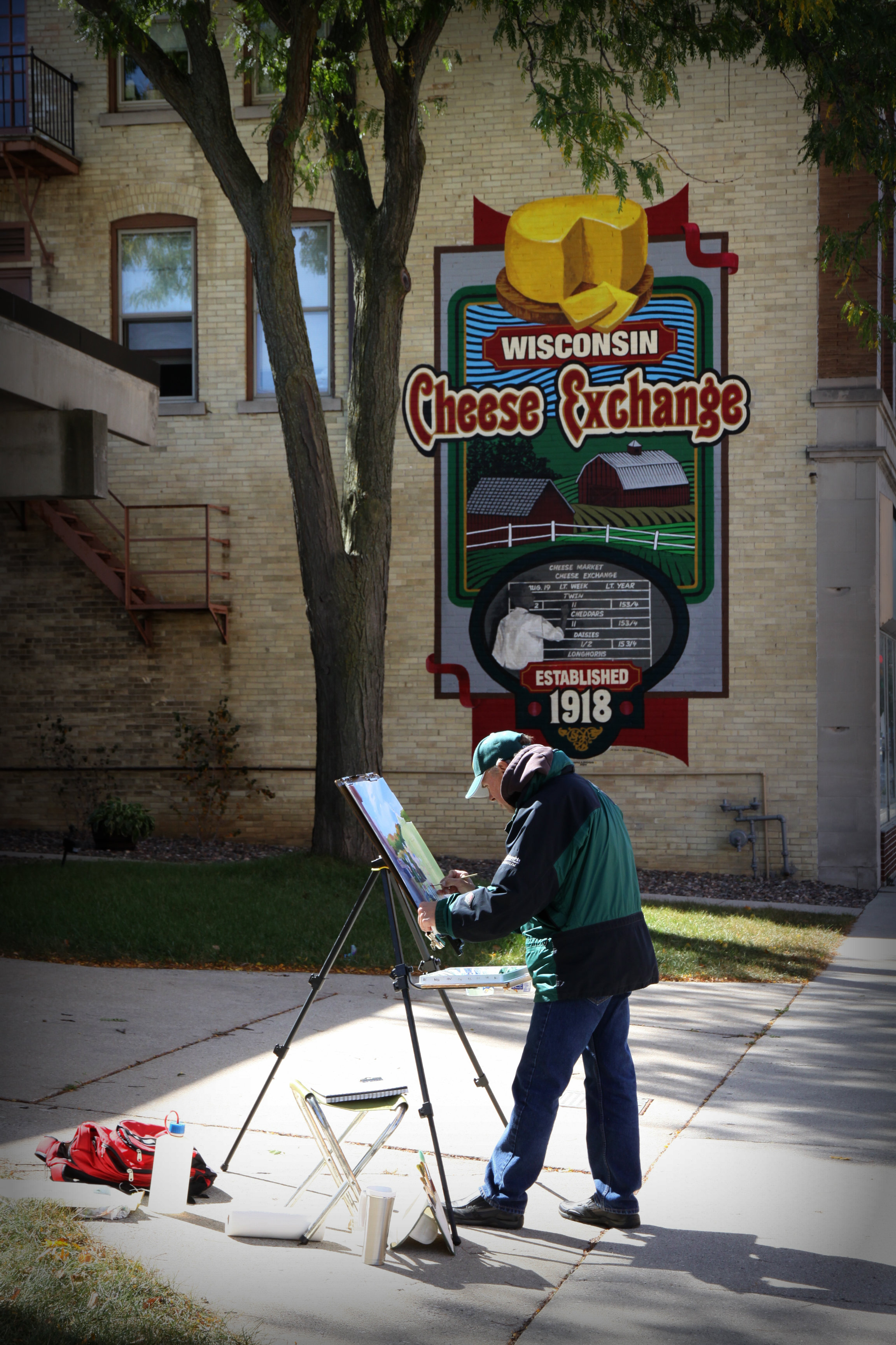 Downton mural and artist